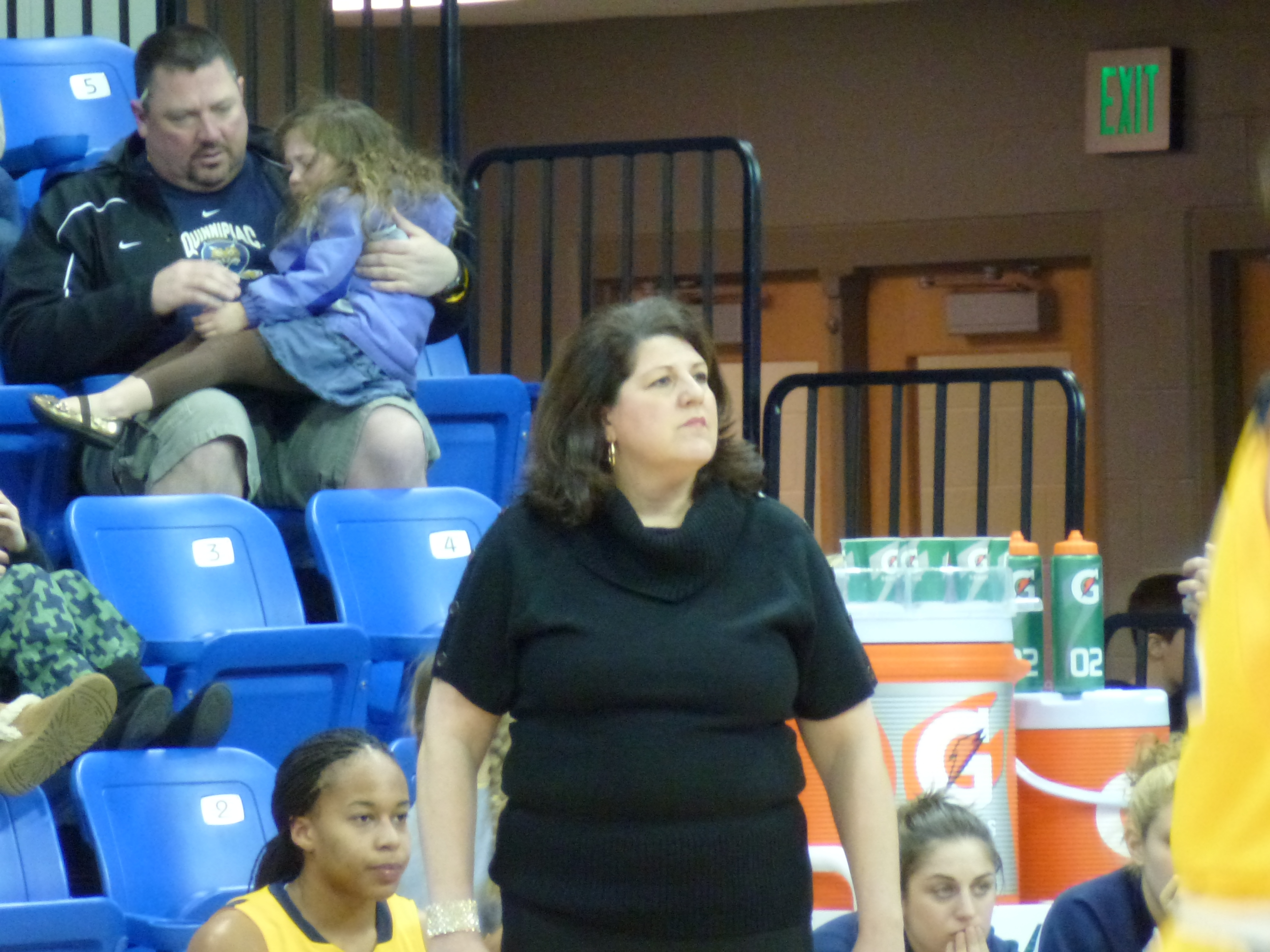 Tricia Fabbri, head coach of the Quinnipiac women's basketball team